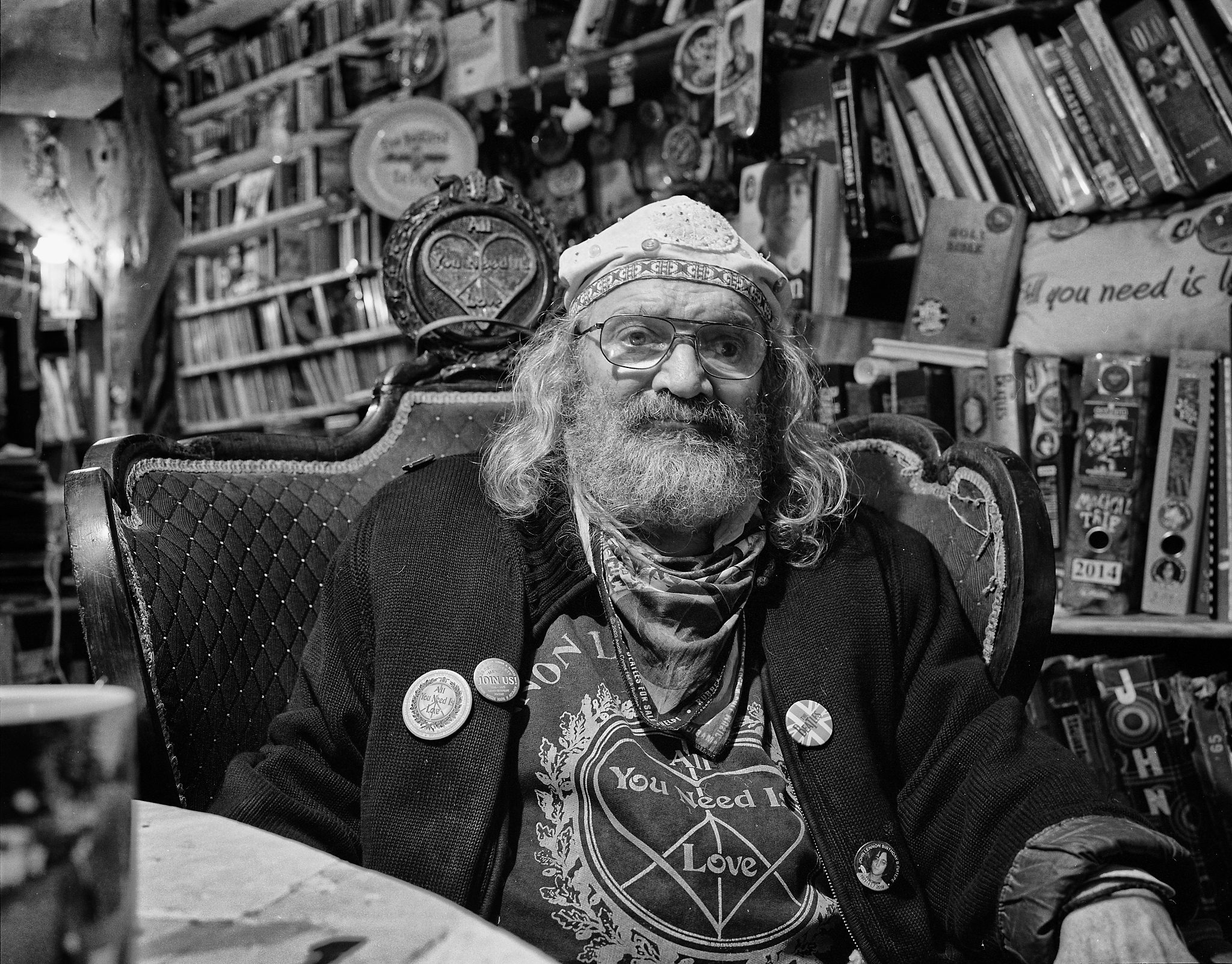 Picture made a week before his tragic death